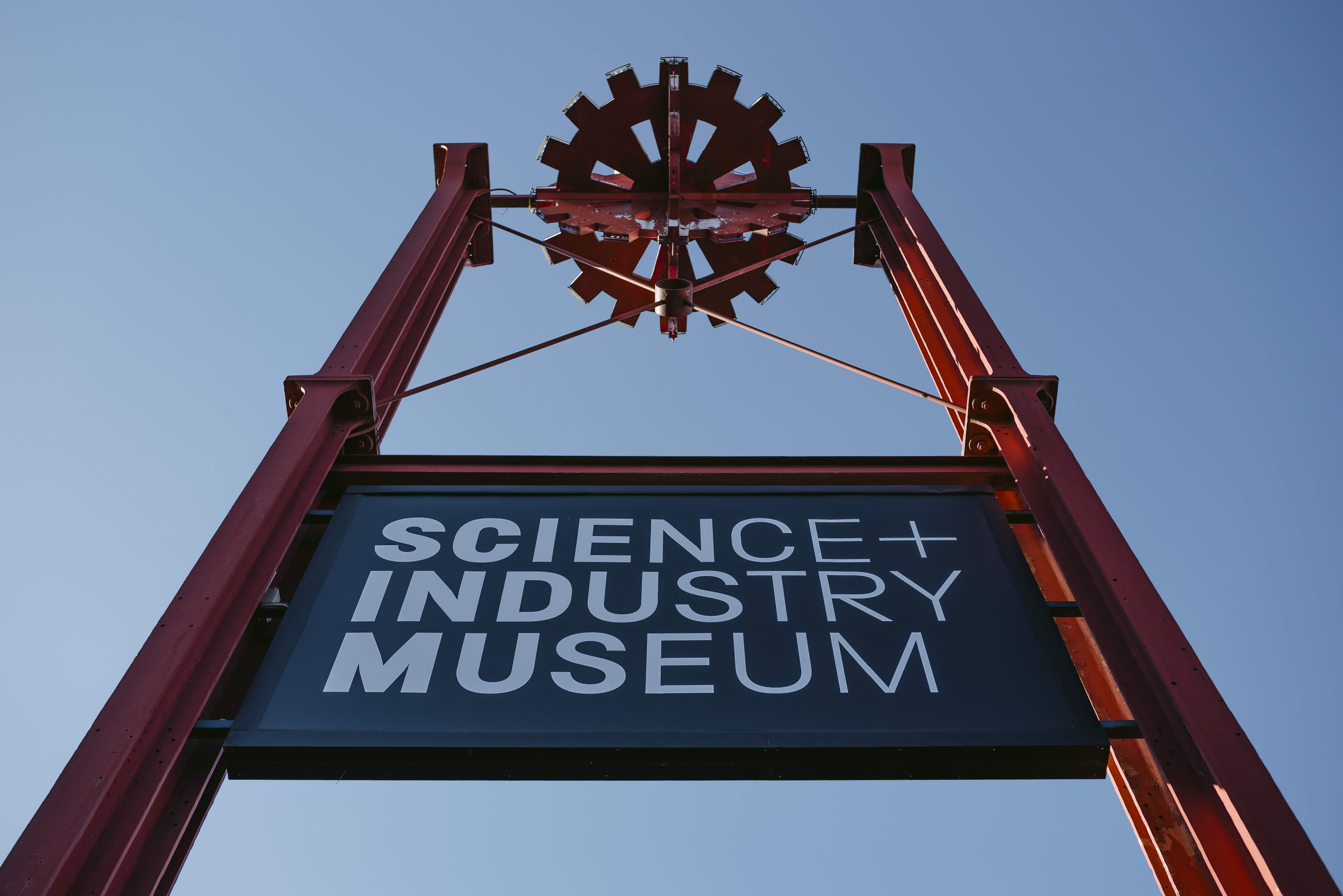 The sign outside the Science and Industry Museum